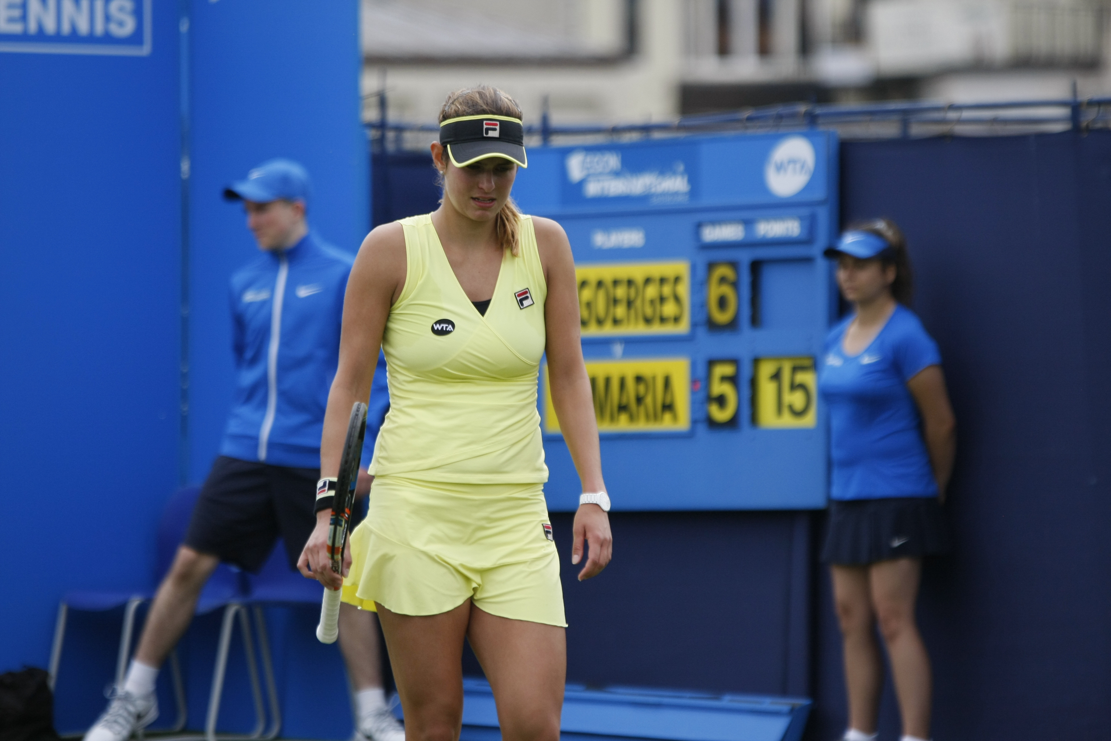 Aegon International Tennis, Devonshire Park, Eastbourne June 2015